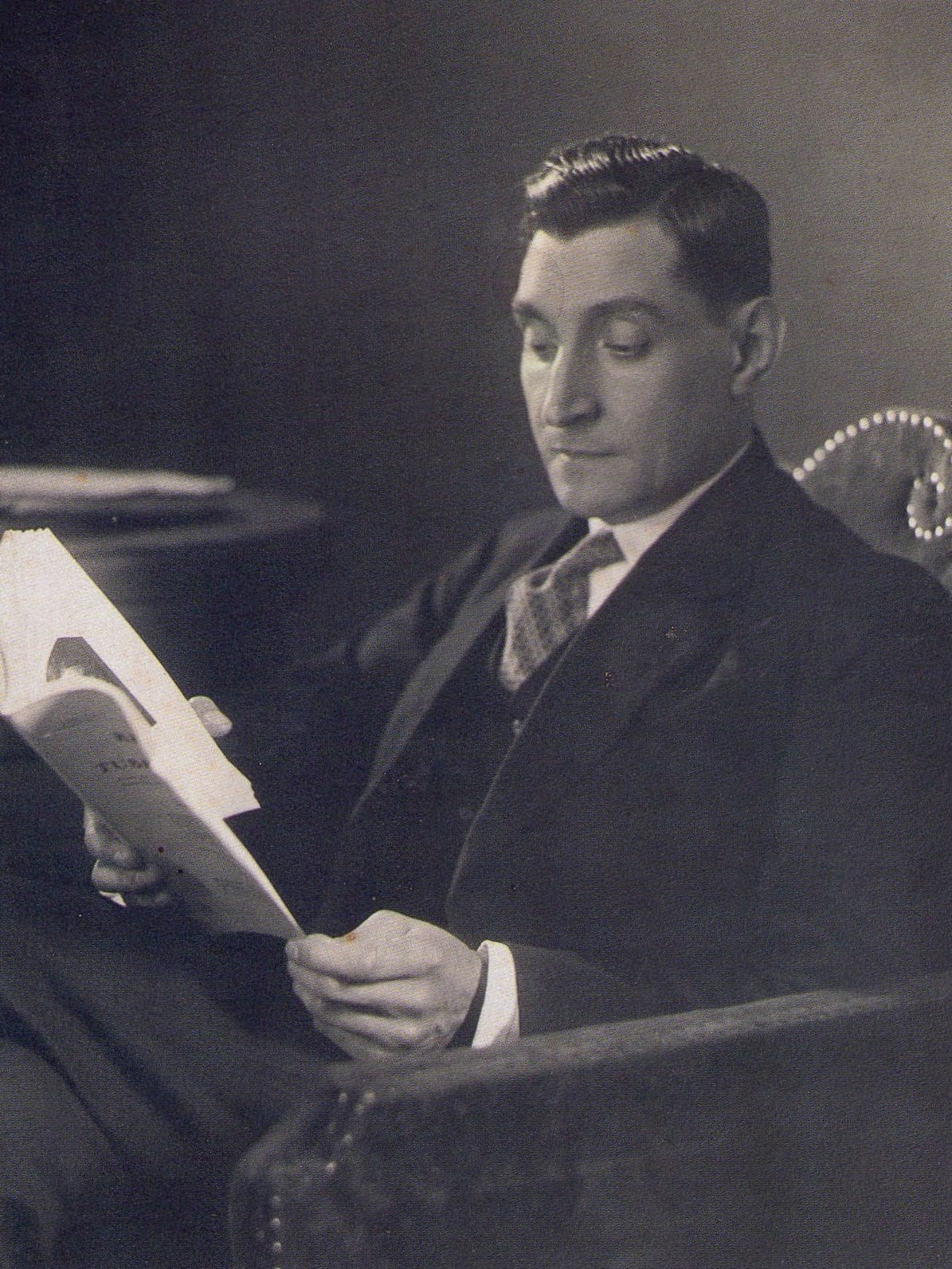 Image of Portuguese Leader Antonio Oliveira de Salazar